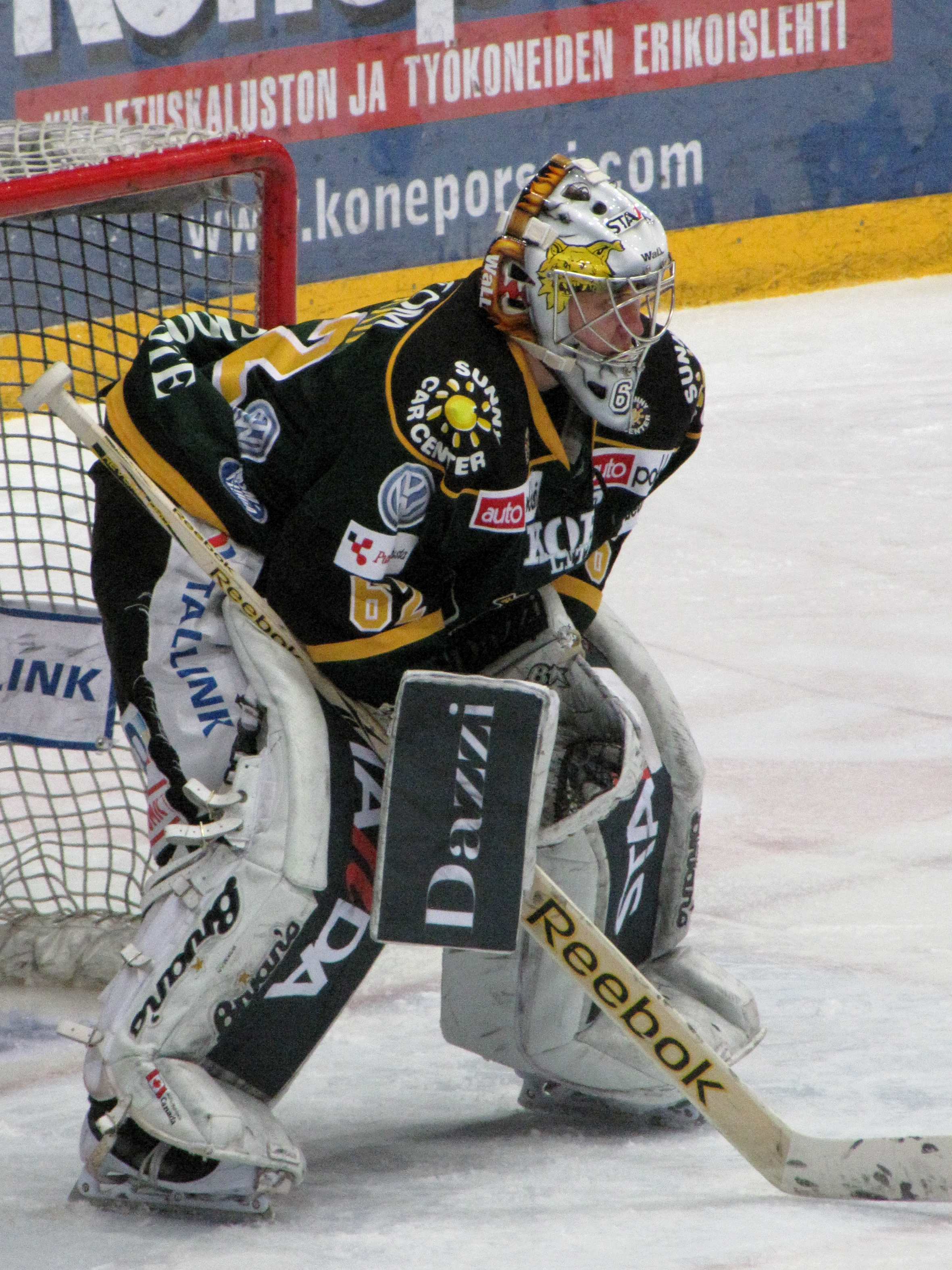 Finnish ice hockey goaltender Miika Wiikman playing for Tampere Ilves in an SM-liiga game against the Lahti Pelicans in Tampere, Finland, in February 2011.